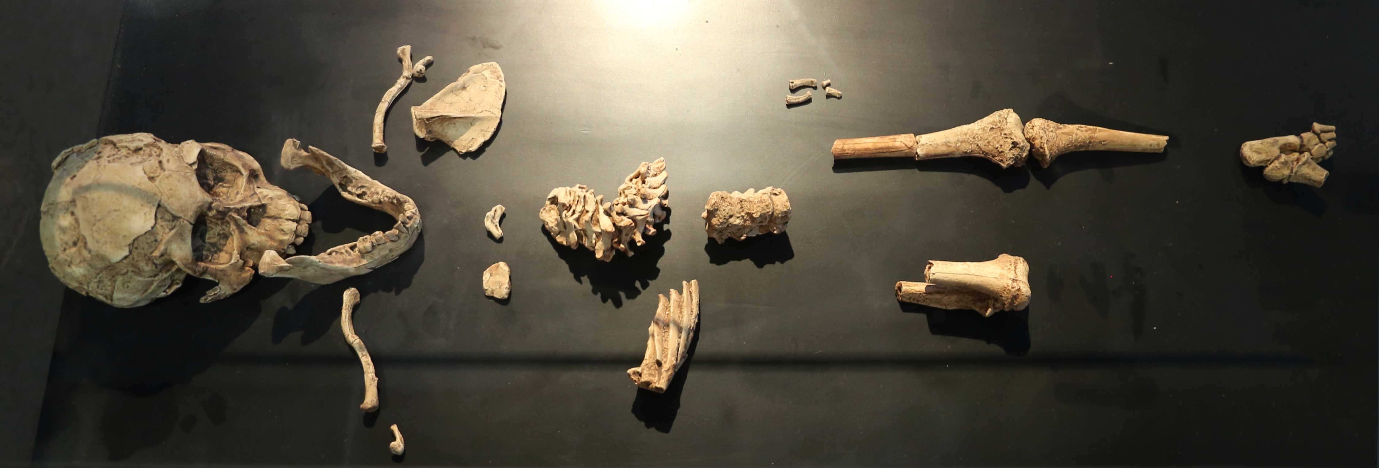 Paleontological collections of the National Museum of Ethiopia